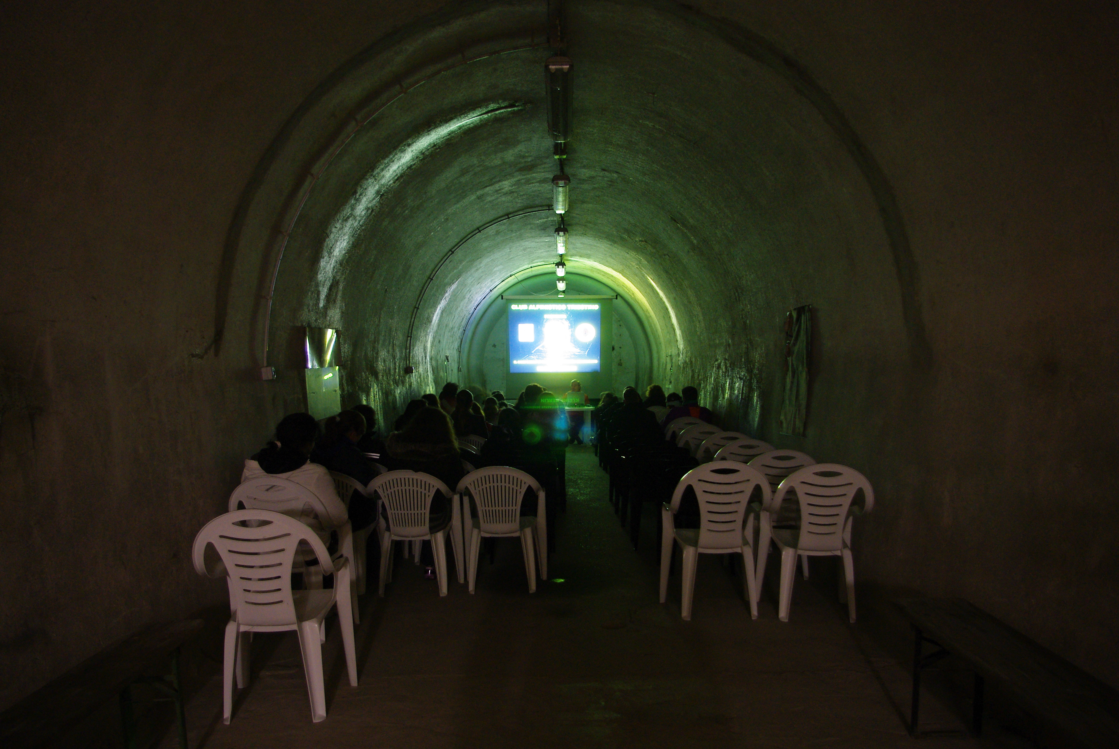 Before the tour, little bit of history. Air-raid shelter i Trieste, Italy.